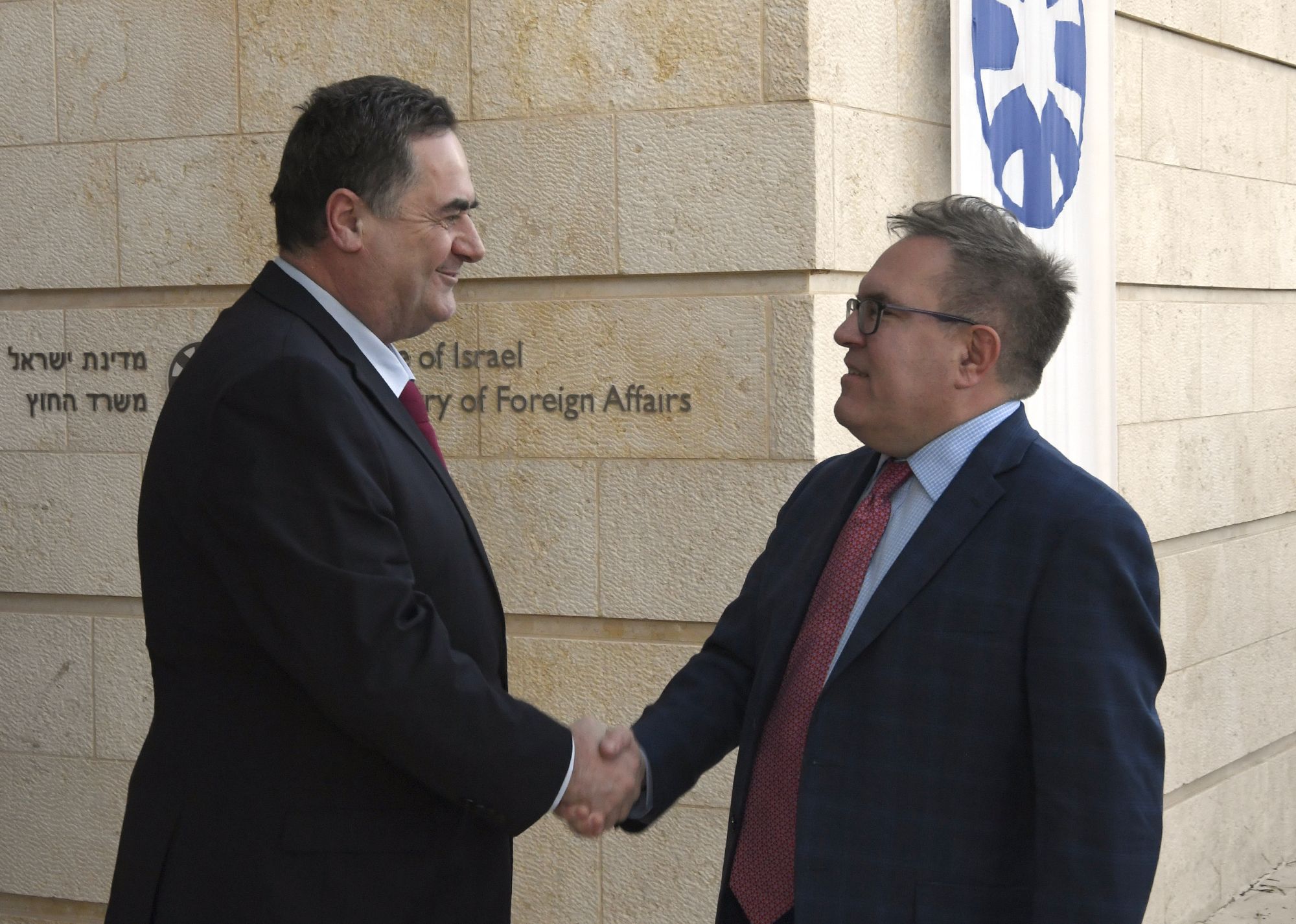 EPA ADMINISTRATOR WHEELER Visit to Israel Nov. 17-19, 2019 meeting with Mr. Israel Katz, Minister of Foreign Affairs